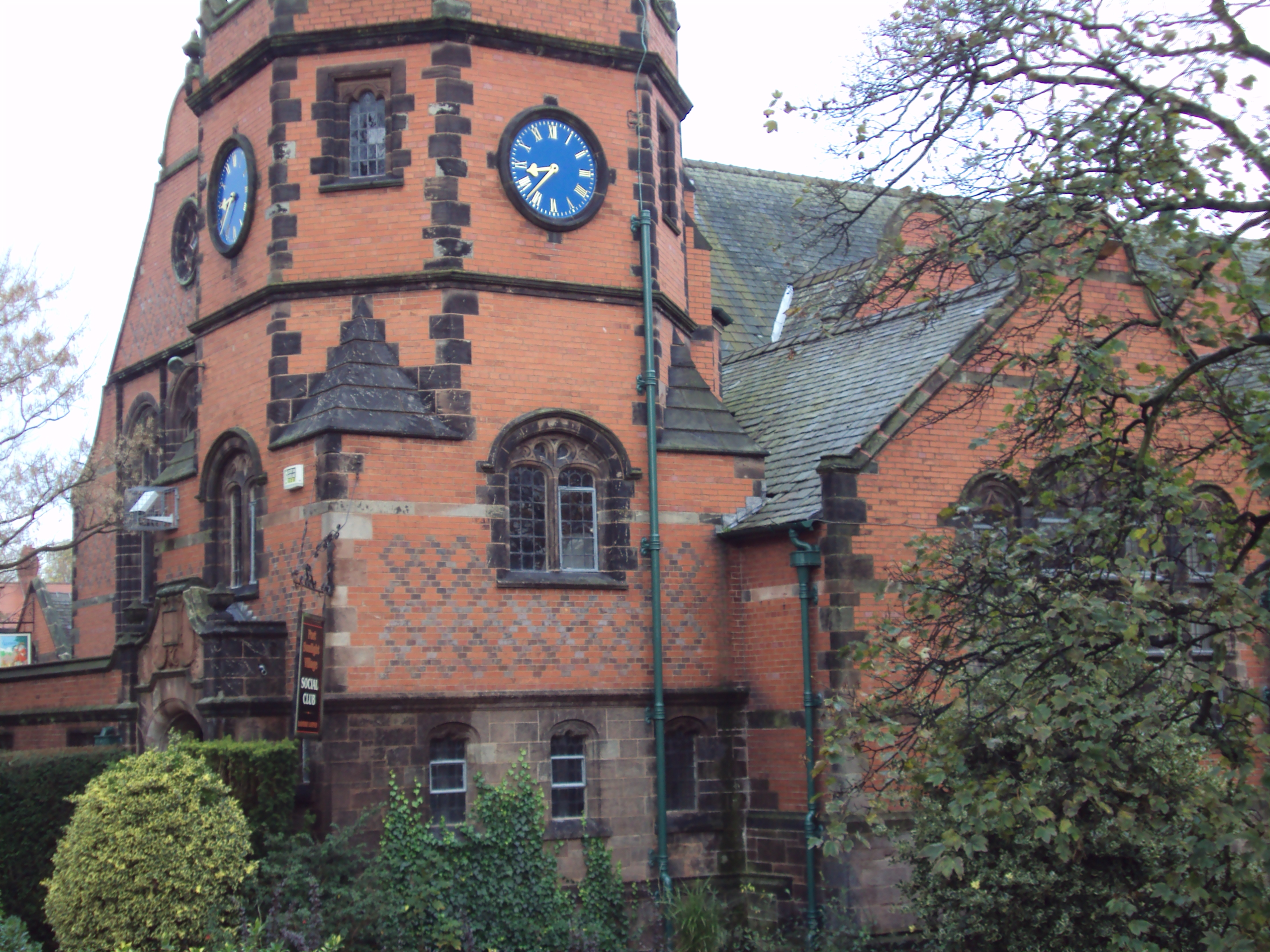 Port Sunlight Village Social Club, Wirral, Merseyside, England.